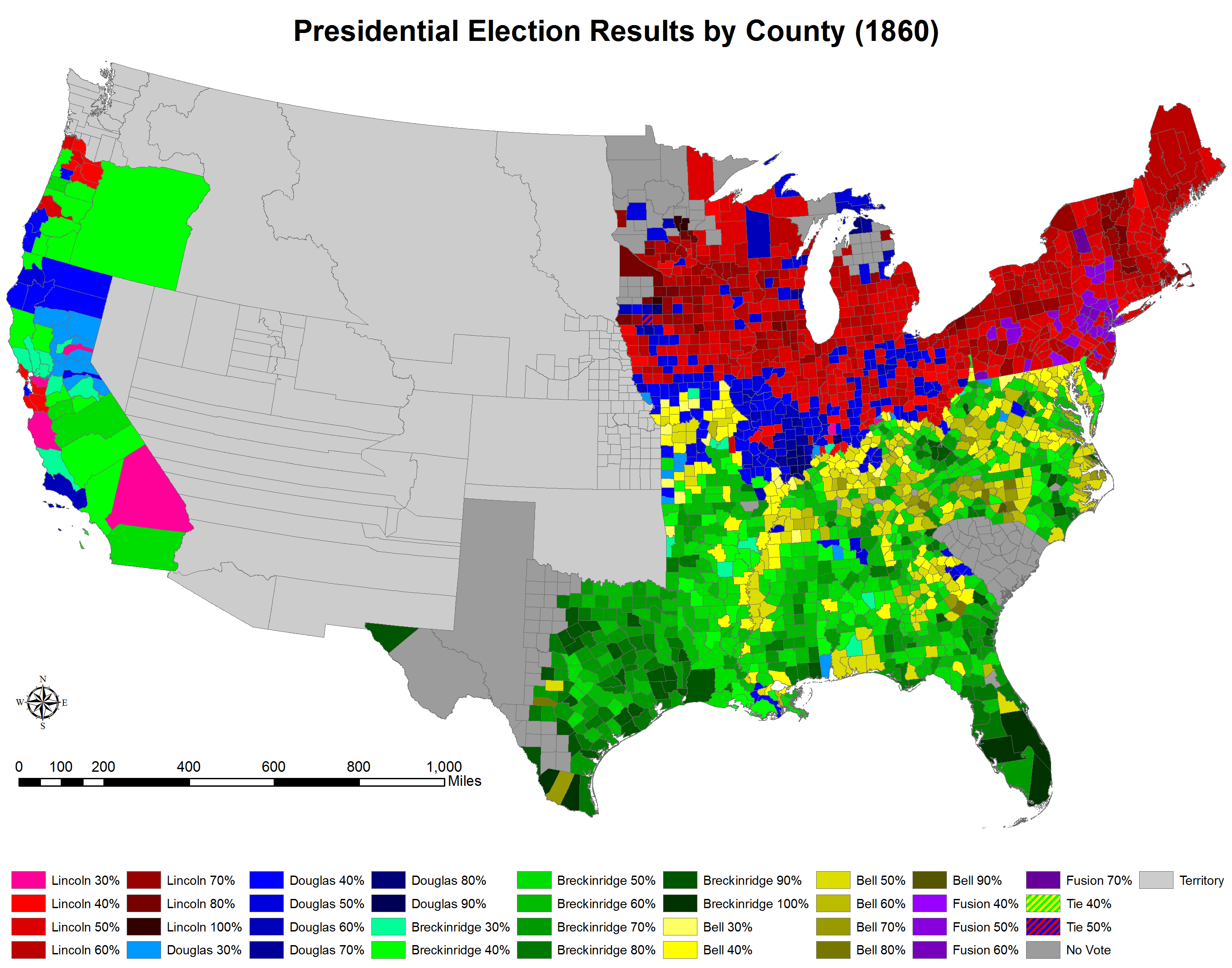 Presidential election results by county (1860).